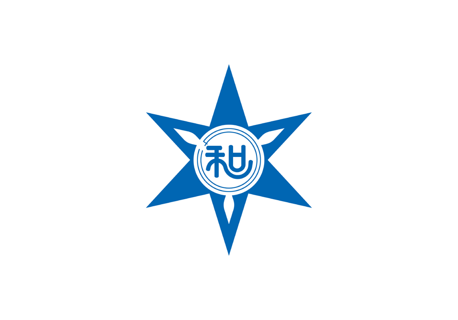 Flag of Wakayama, Wakayama